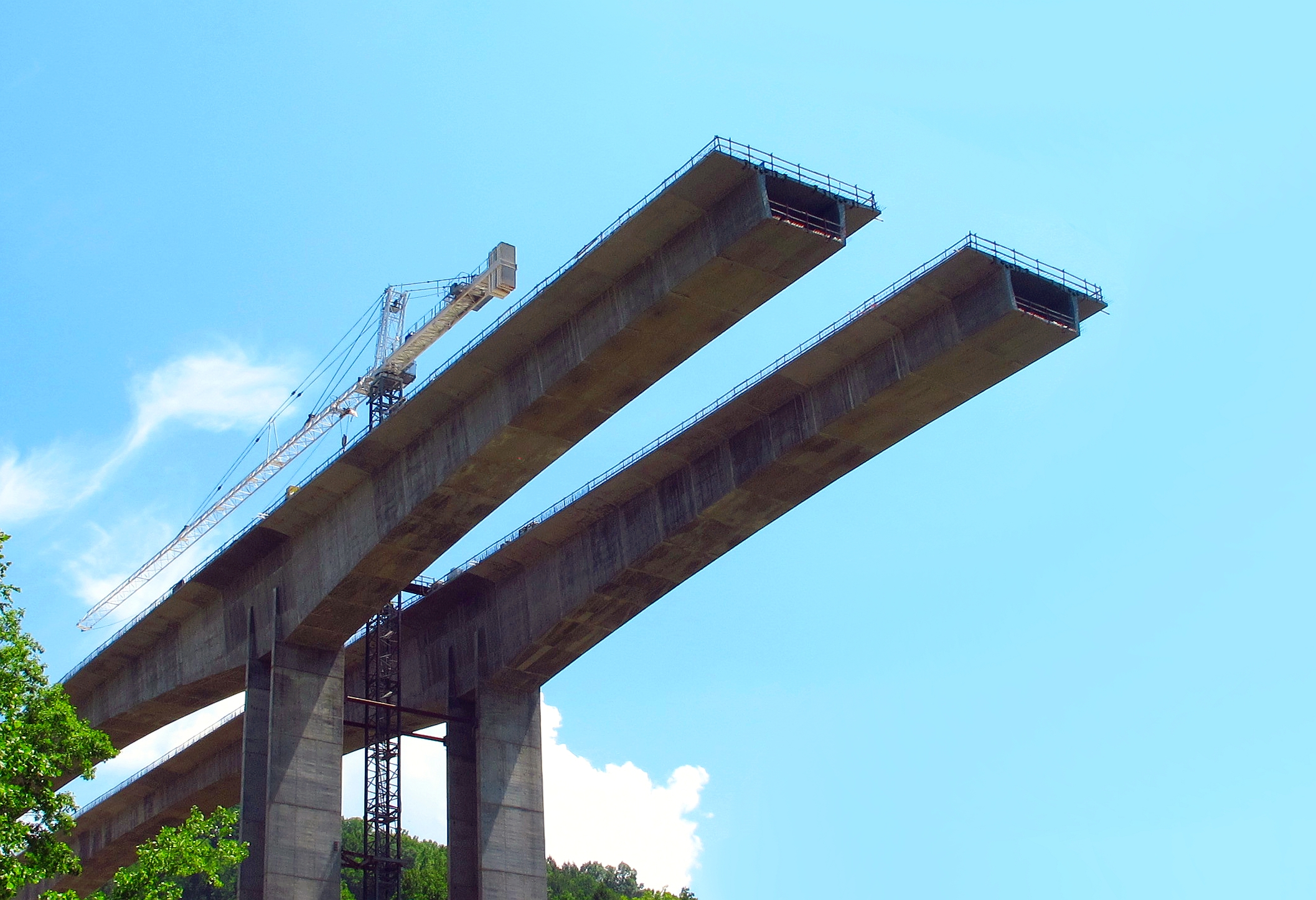 Bridge construction on Corridor Q, Dickenson County, Virginia.